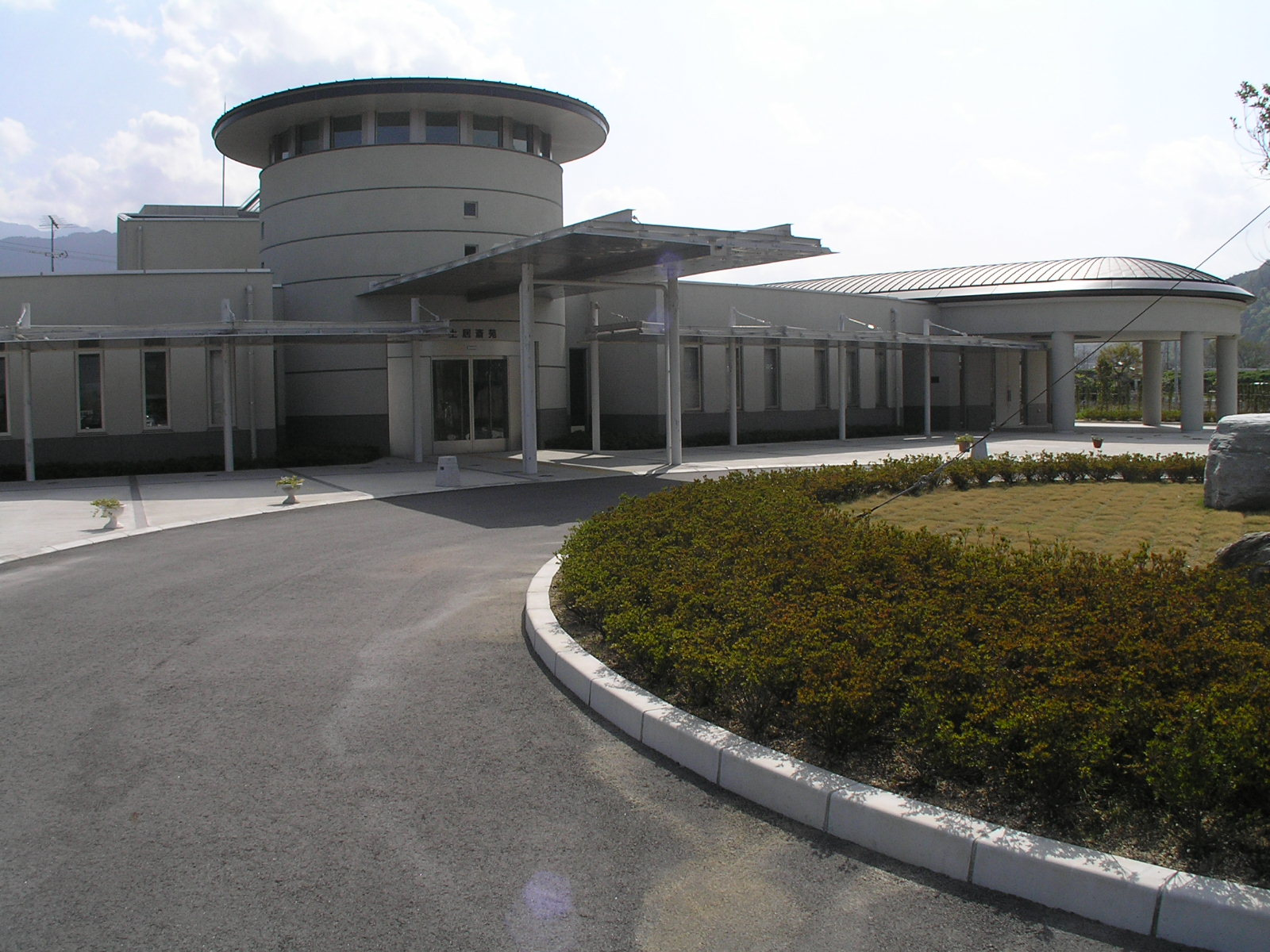 Doi-saien